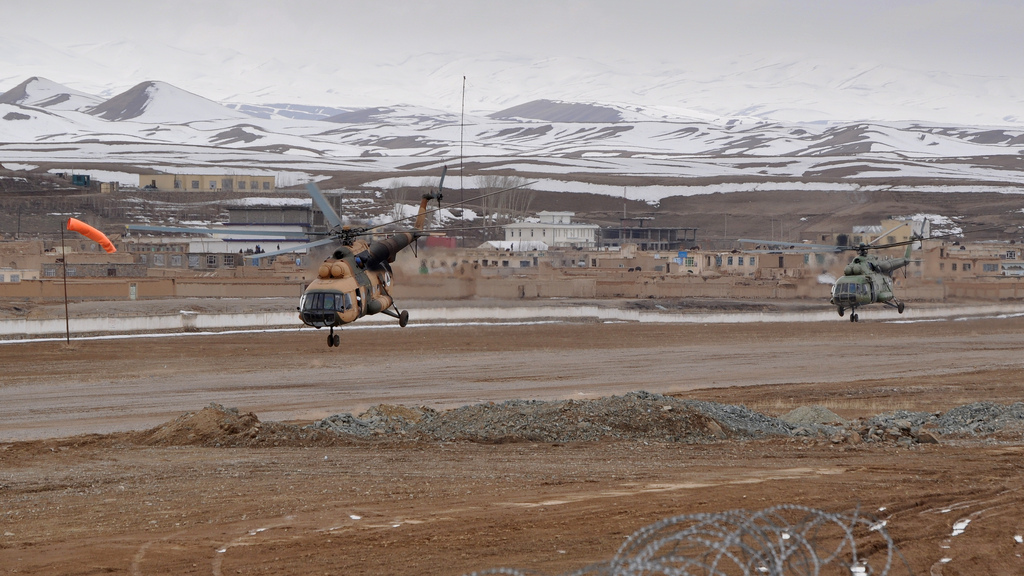 Afghanistan,Chaghcharan. ANSF helicopters at Chaghcharan airfield. Photo is taken from camp Whiskey, 5 Mar 2010, using a NIKON D5000. Photo by Julius Grigaliauskas of Lithuania.